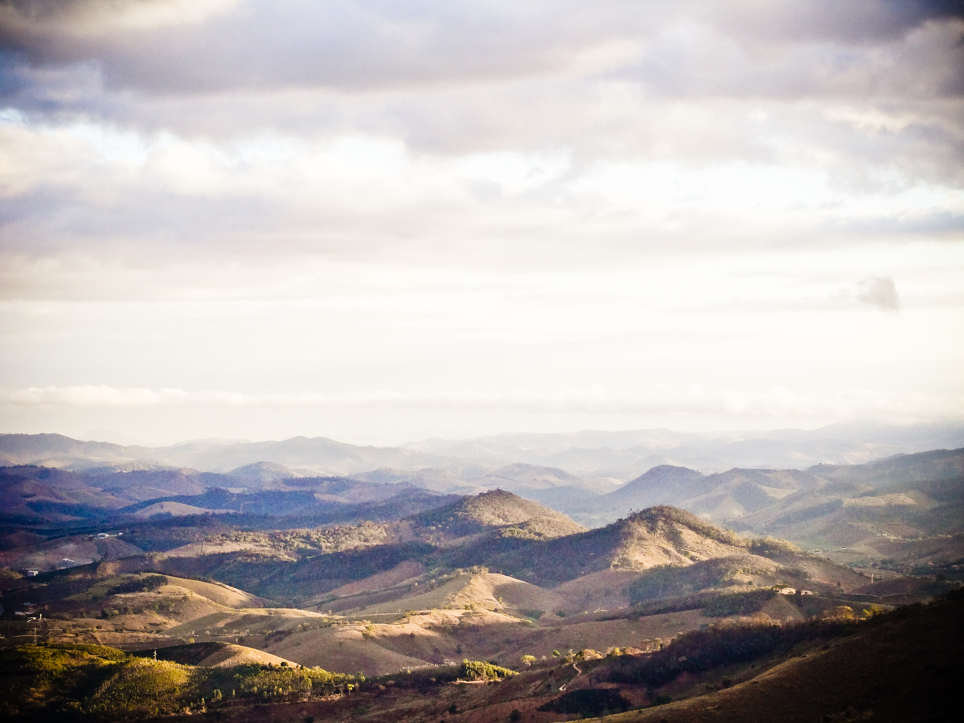 Mountains in Caratinga, Minas Gerais, Brazil.